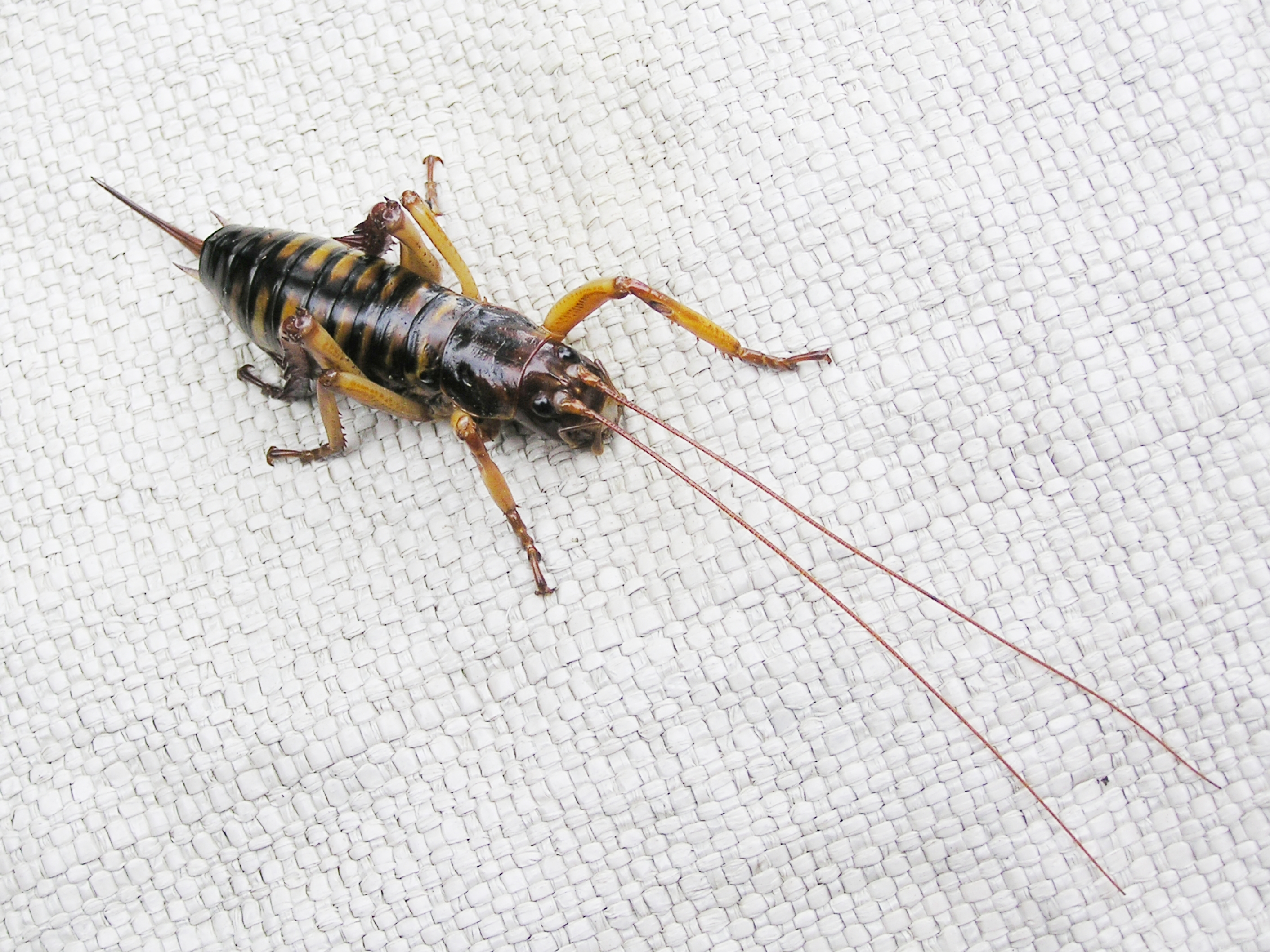 Female Wellington tree weta showing length of antenna.